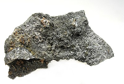 Tellurium Locality: Emperor Mine, Vatukoula, Tavua Gold Field, Viti Levu, Fiji (Locality at ) Size: miniature, 5.5 x 2.8 x 1 cm Native Tellurium Crystals several very small, sub-mm crystals are scattered sparsely about and a good micromount could be made! nice reference specimen for the micro collector